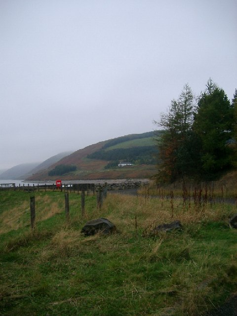 Craigierig West and Hunter Hill, Meggat. Taken from the car park at Meggat Dam, this shows the succession of hills sticking into the reservoir, with Craigierig West house in the first one.